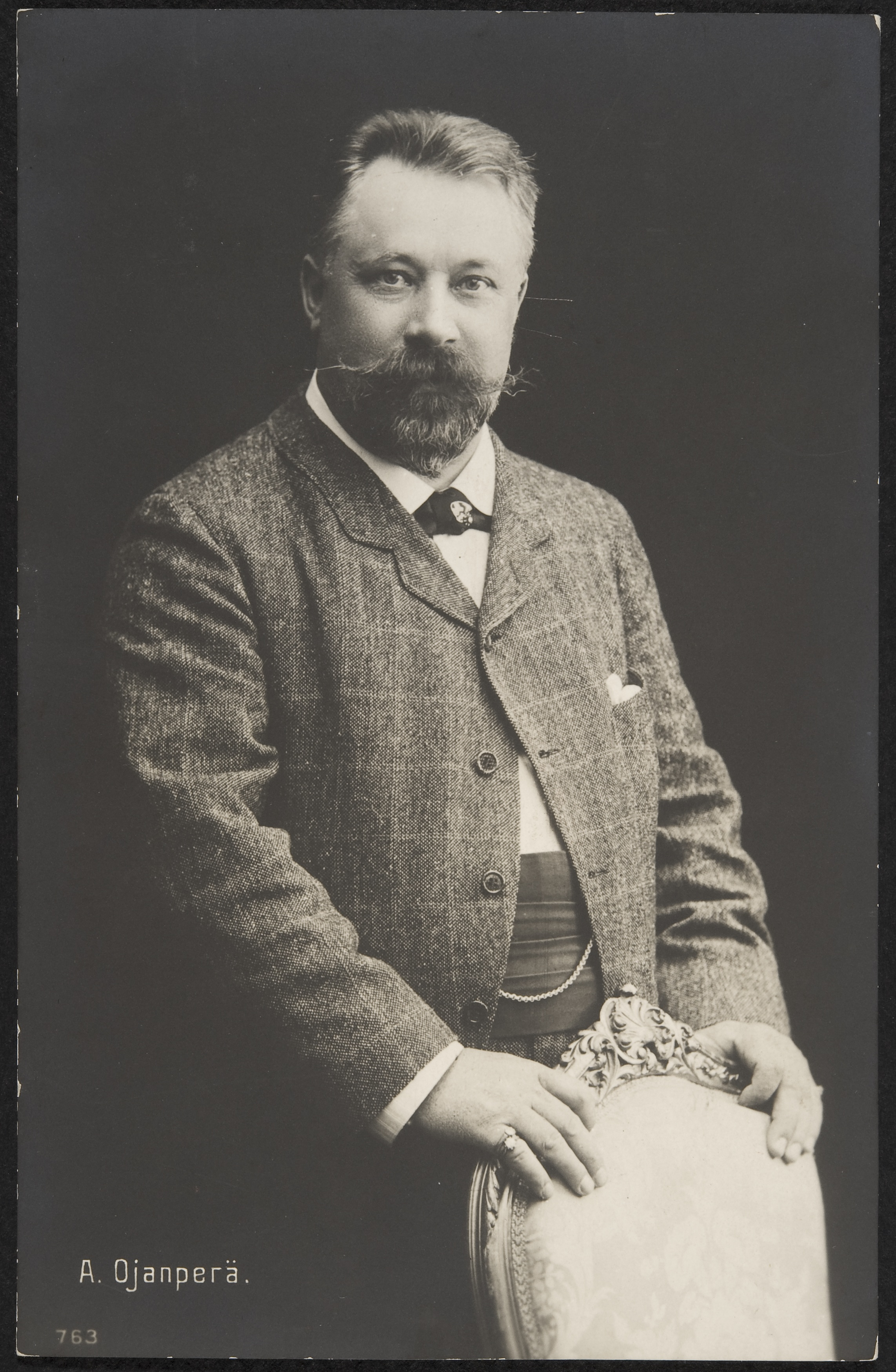 The Finnish opera singer Abraham Ojanperä (1859-1916), picture from the early 1900s